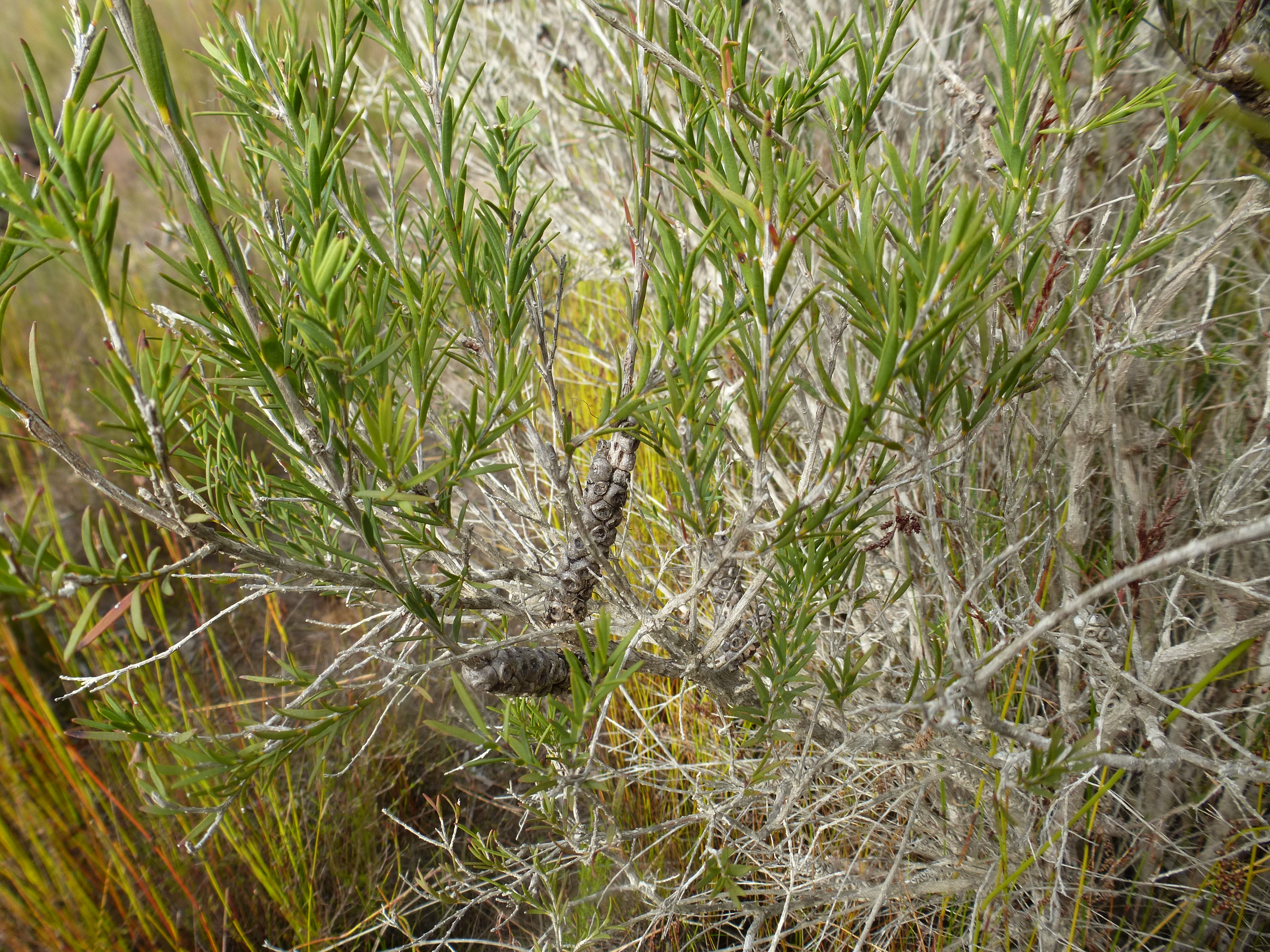 Melaleuca lateritia growing near Margaret River